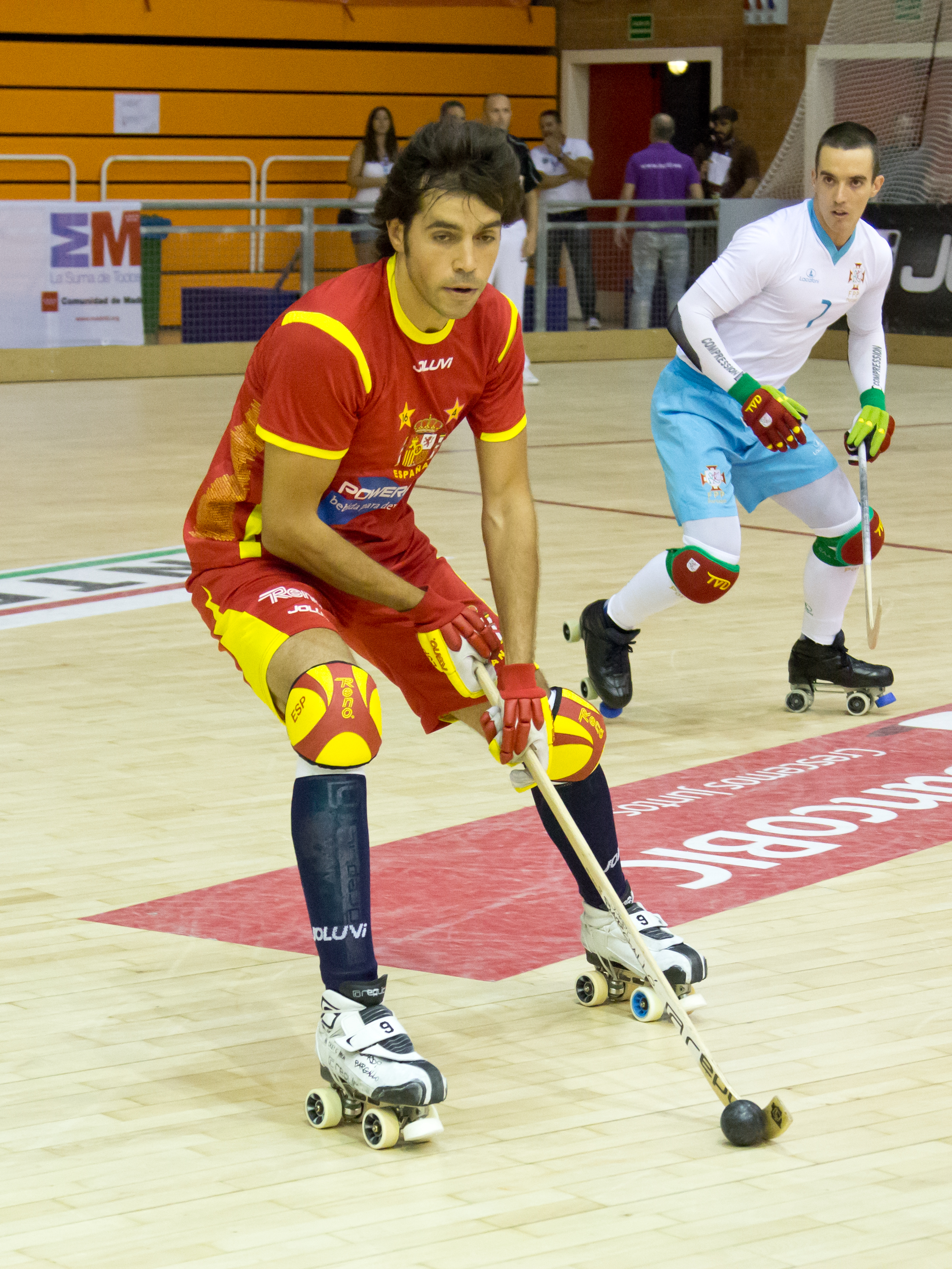 Jordi Bargalló playing for the Spain national roller hockey team at the 2014 CERH Championship.